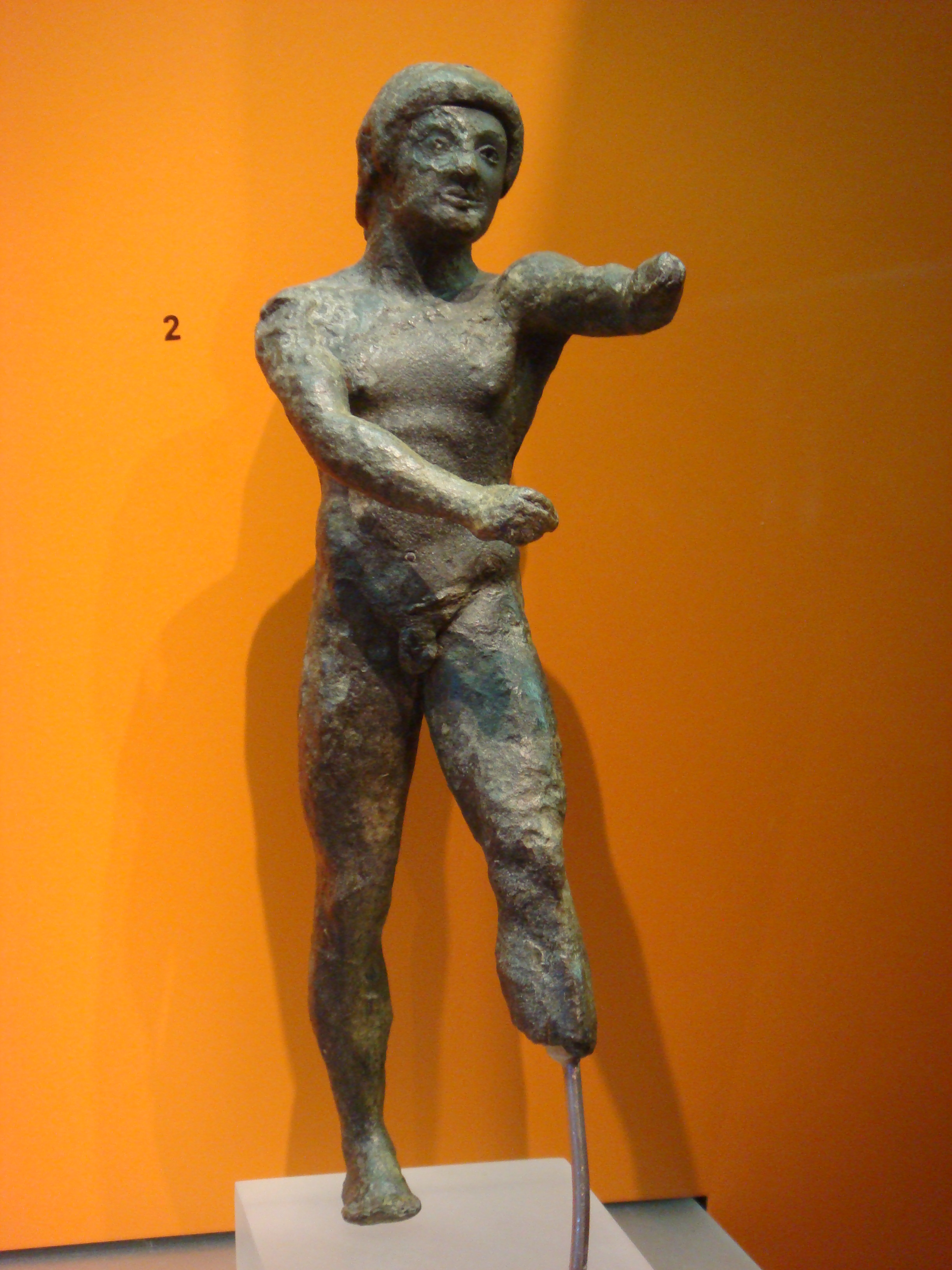 Exhibit in the Archaeological Museum of Delphi.